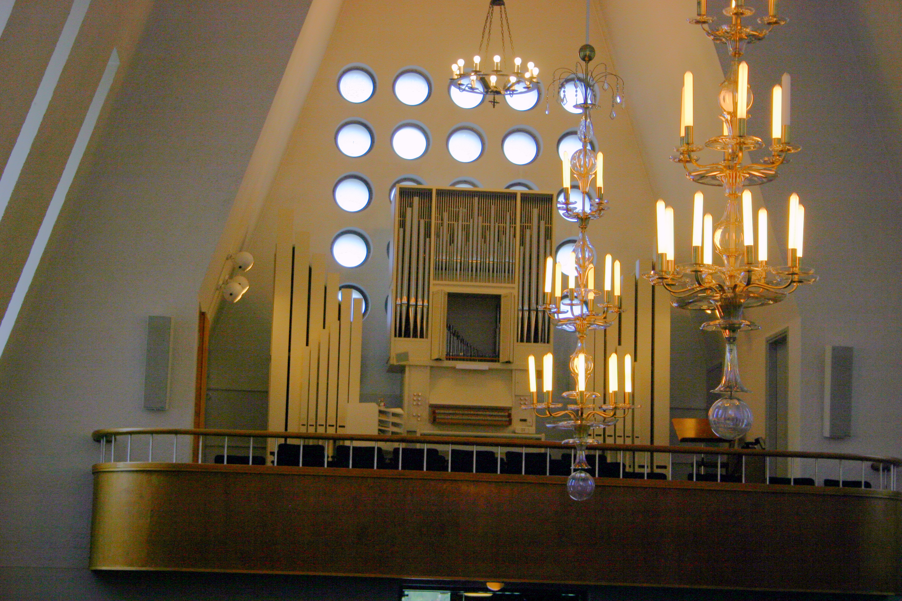 Organs and chandeliers of Rajamäki church, Nurmijärvi, Finland